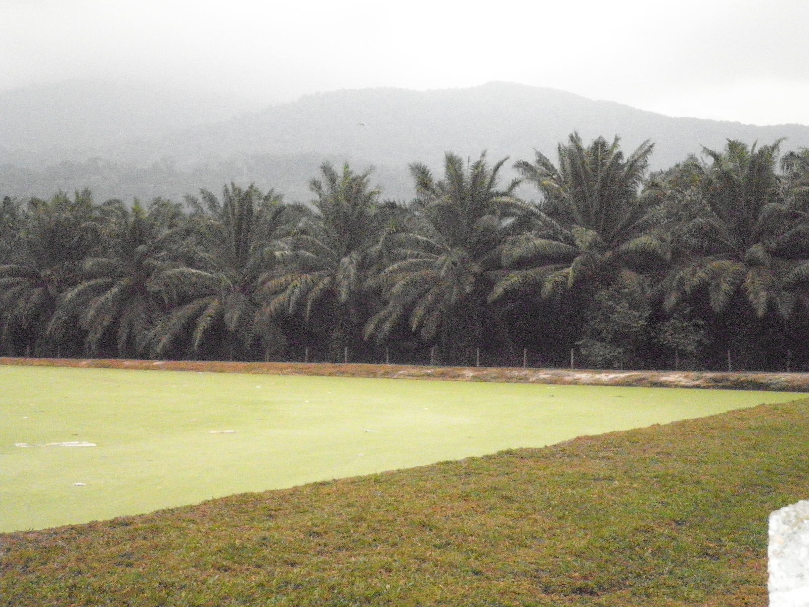 Description: Unidentified landscape photographed by user. Somewhere in the Titiwangsa Mountains.